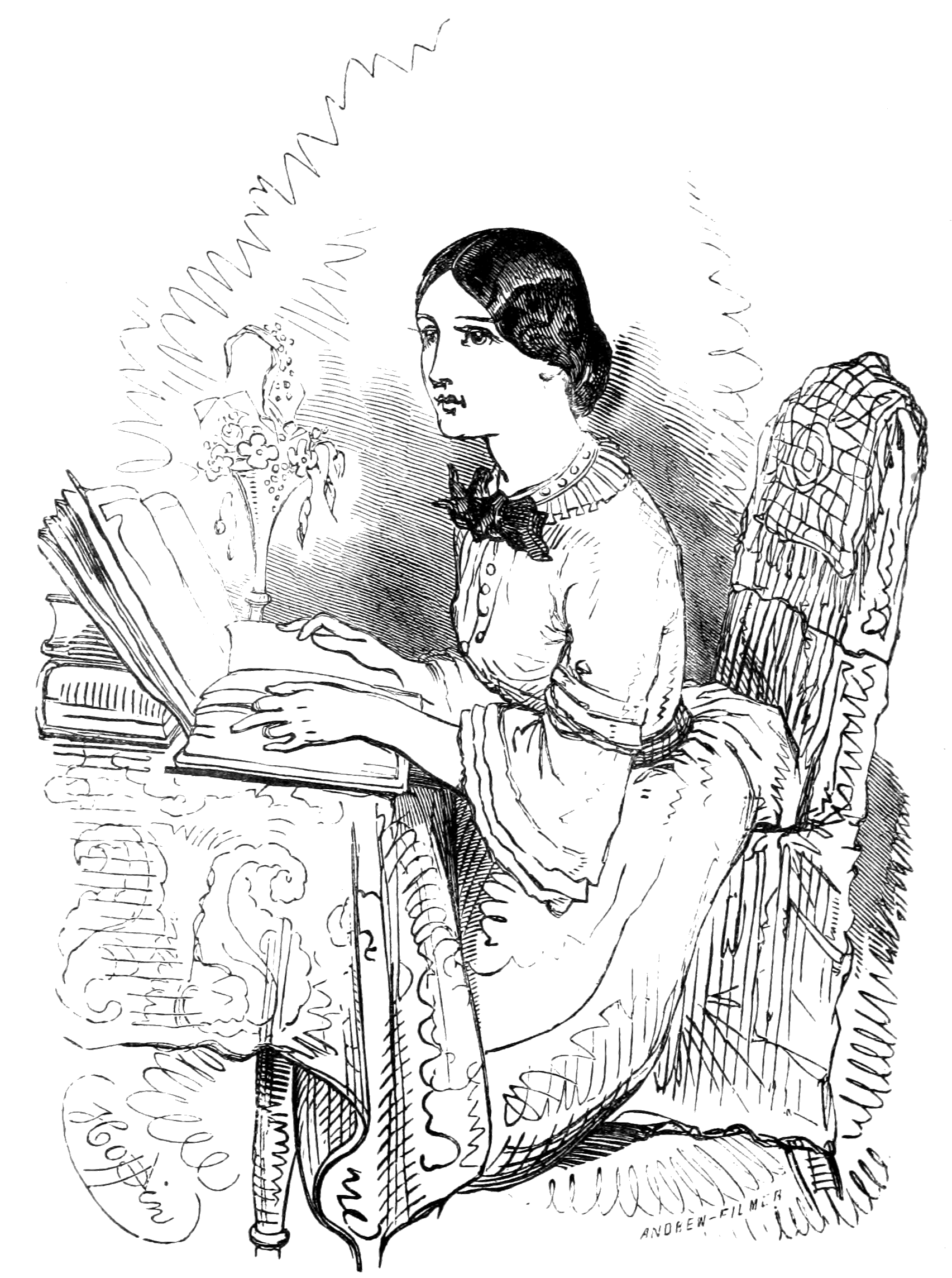 Illustration from: O.W. Holmes. Autocrat of the breakfast-table (Boston: Phillips, Sampson, Co., 1858). Printed by H.O. Houghton & Co. Young woman looking aside from books on table before her. Note that the fullness of her dress is bunched up in back as she is sitting in the chair.